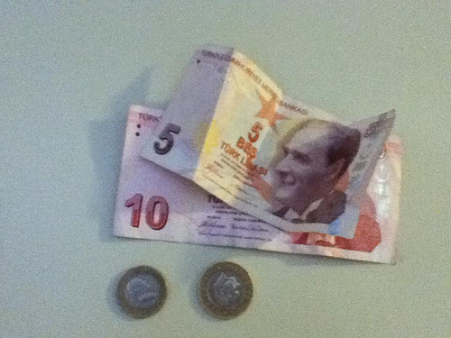 Lira, Turkey